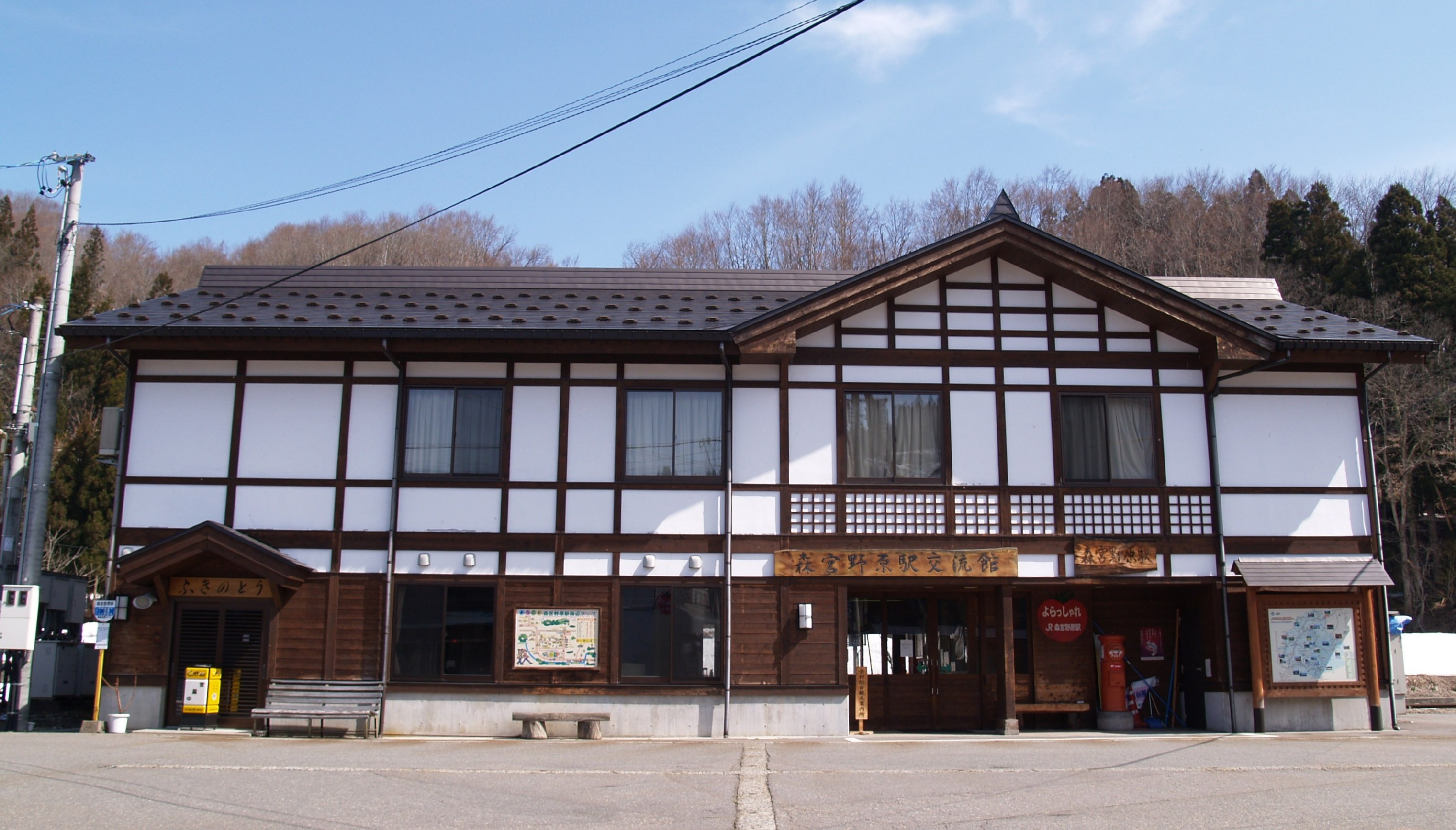 Morimiyanohara Station